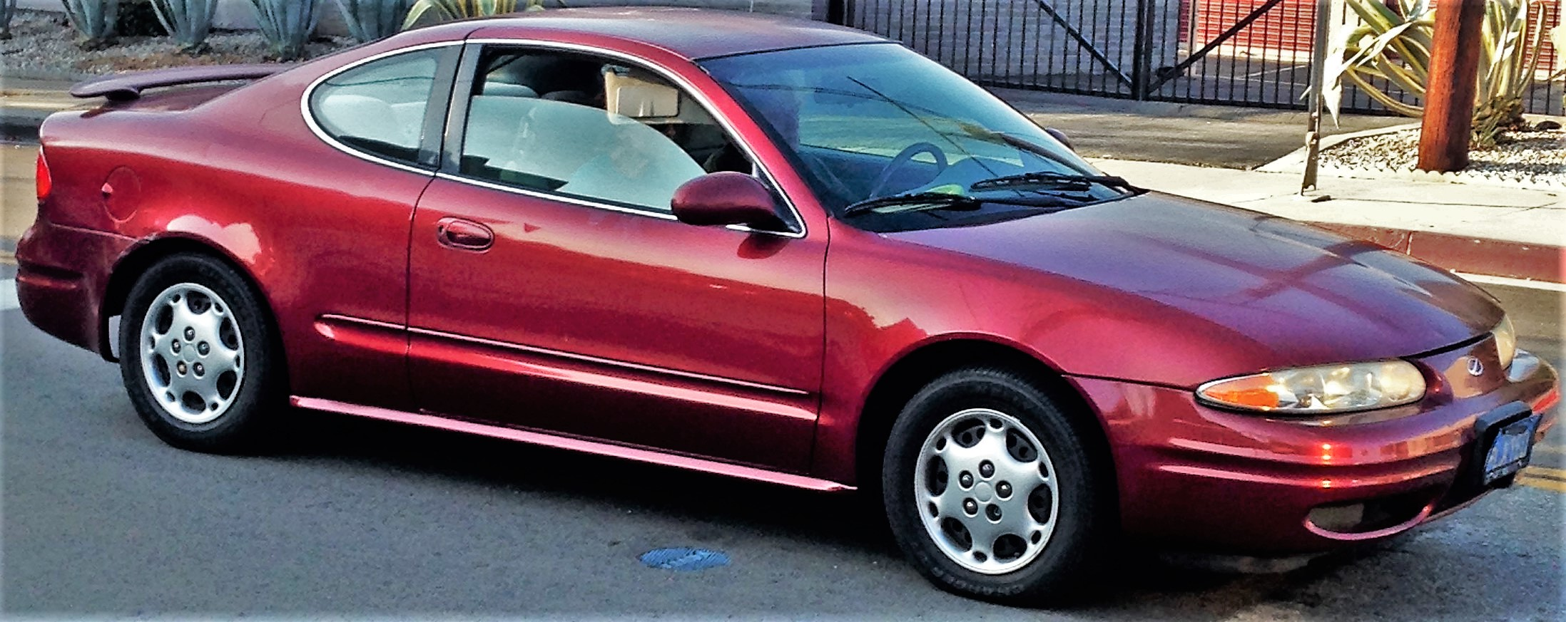 2004 Oldsmobile Alero Coupe